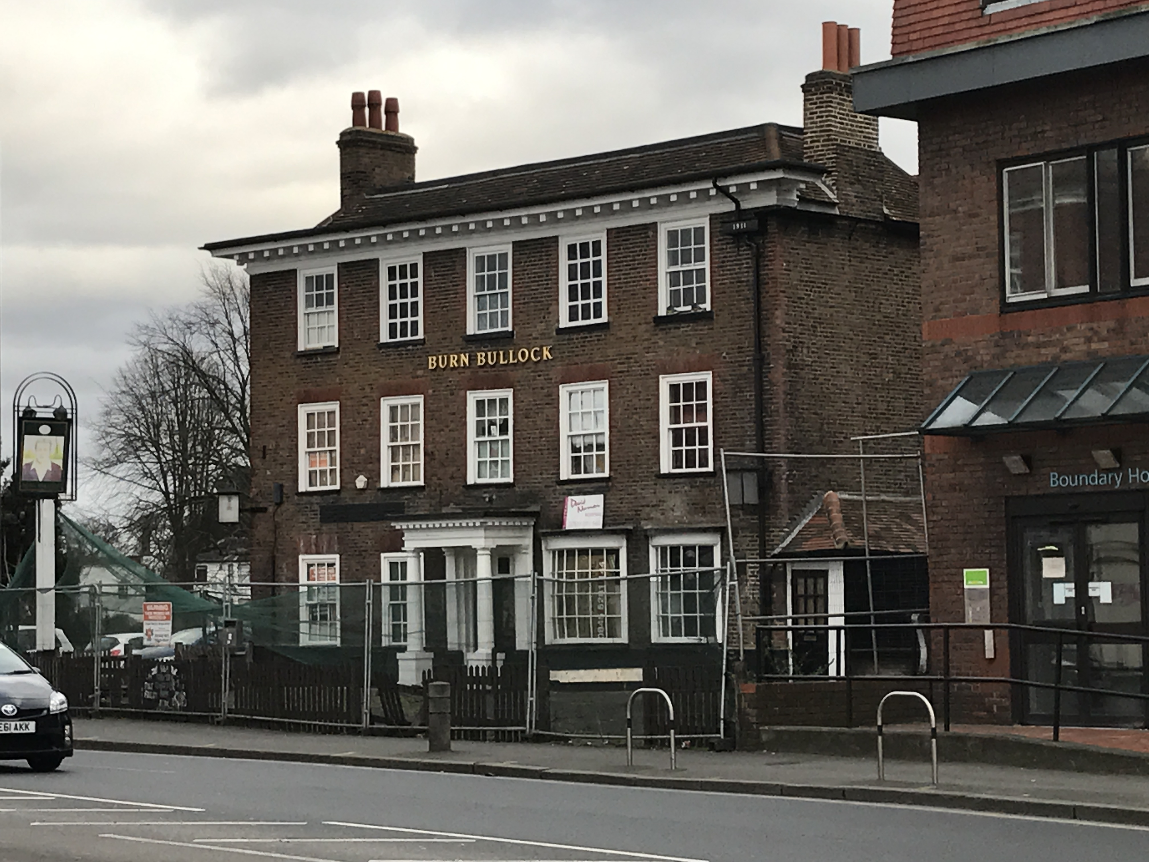 Coaching inn at Mitcham, Surrey, formerly the King's Head, renamed after the cricketer Burn Bullock who was landlord until his death in 1954. Now closed. Grade II listed.